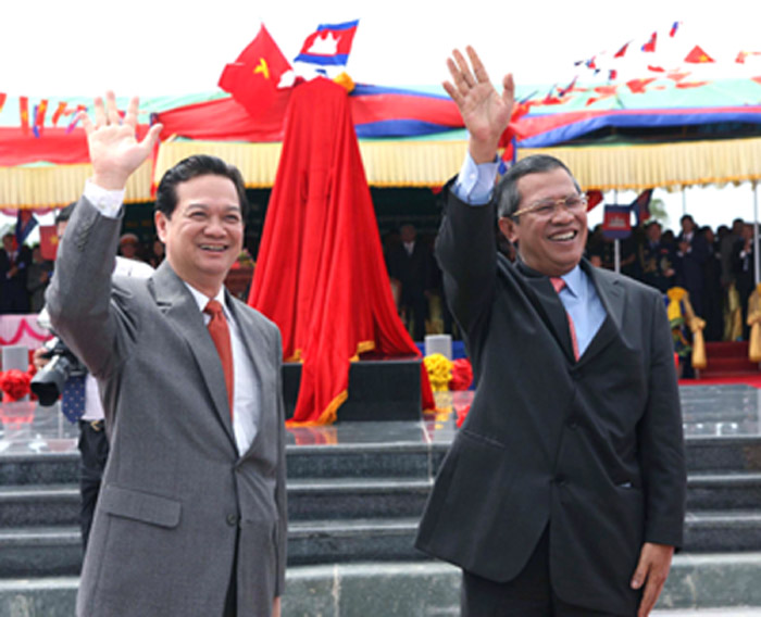 Nguyen Tan Dung and Hunsen opened ceremony boundary stone at Moc Bai-Bavet border